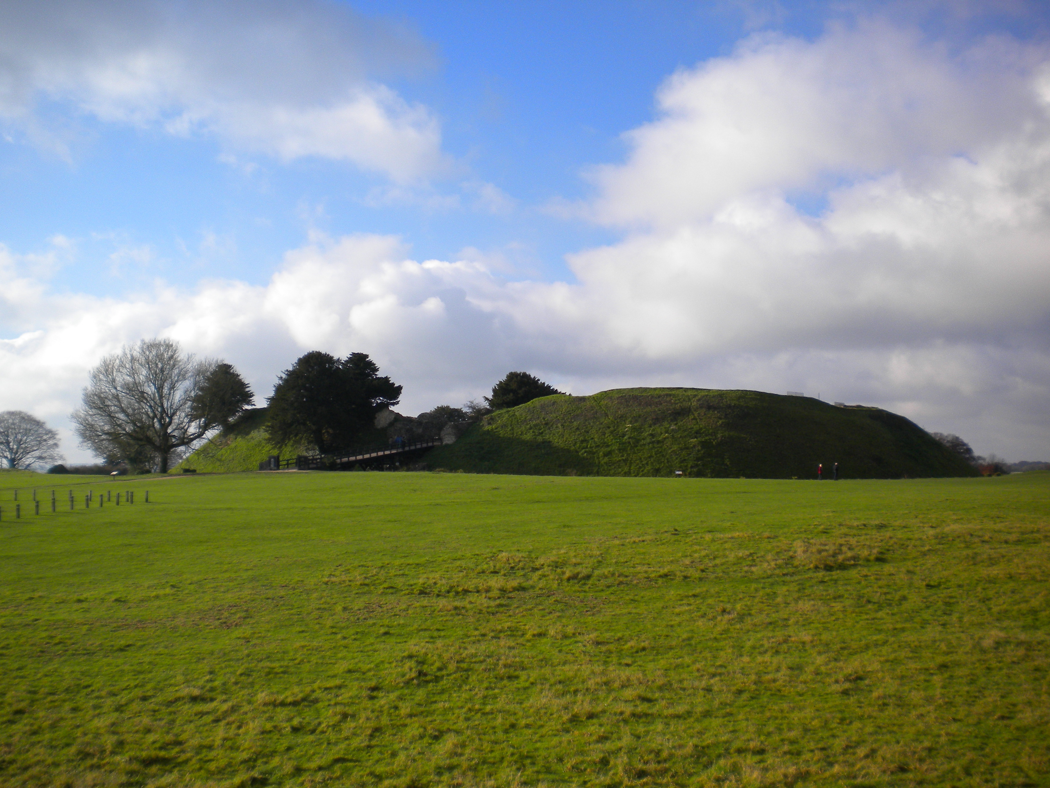 The Norman castle motte with remains of a royal palace at Old Sarum, Wiltshire, England.